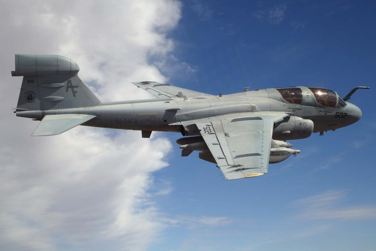 A U.S. Navy Reserve Grumman EA-6B Prowler (BuNo 161118) from Electronic Attack Squadron VAQ-209 Star Warriors in flight while being deployed to Al Asad Air Base, Iraq, in June 2006.